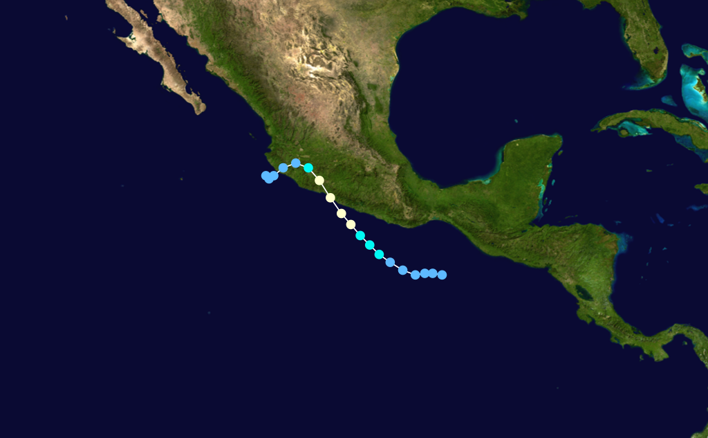 Hurricane Boris (1996) track. Uses the color scheme from the Saffir-Simpson Hurricane Scale.